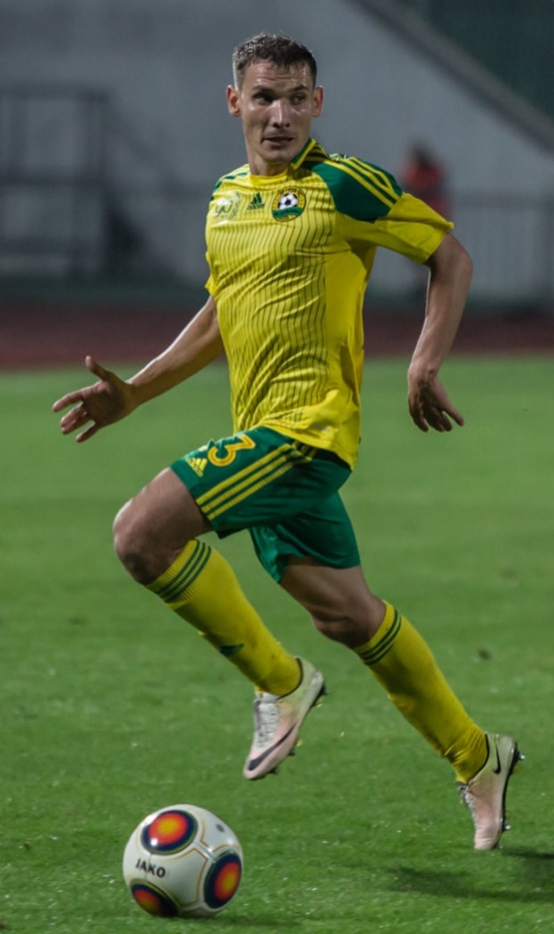 Nikolay Markov with FC Kuban Krasnodar in a game against FC Yenisey Krasnoyarsk.